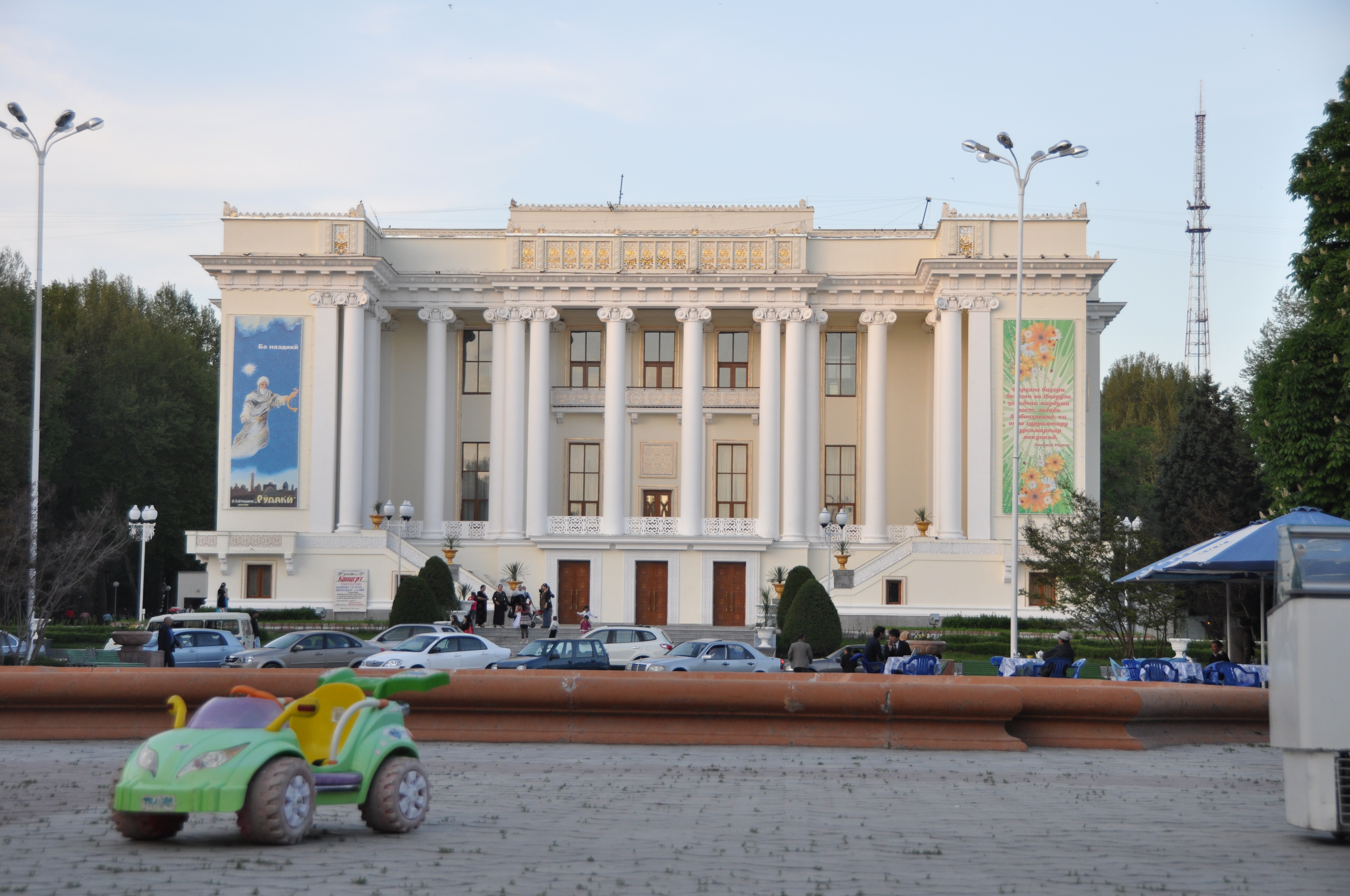 Ayni Dushanbe opera and ballet theatre in DushanbeТоҷикӣ: Театри опера ва балети ба номи С.Айни, Душанбе